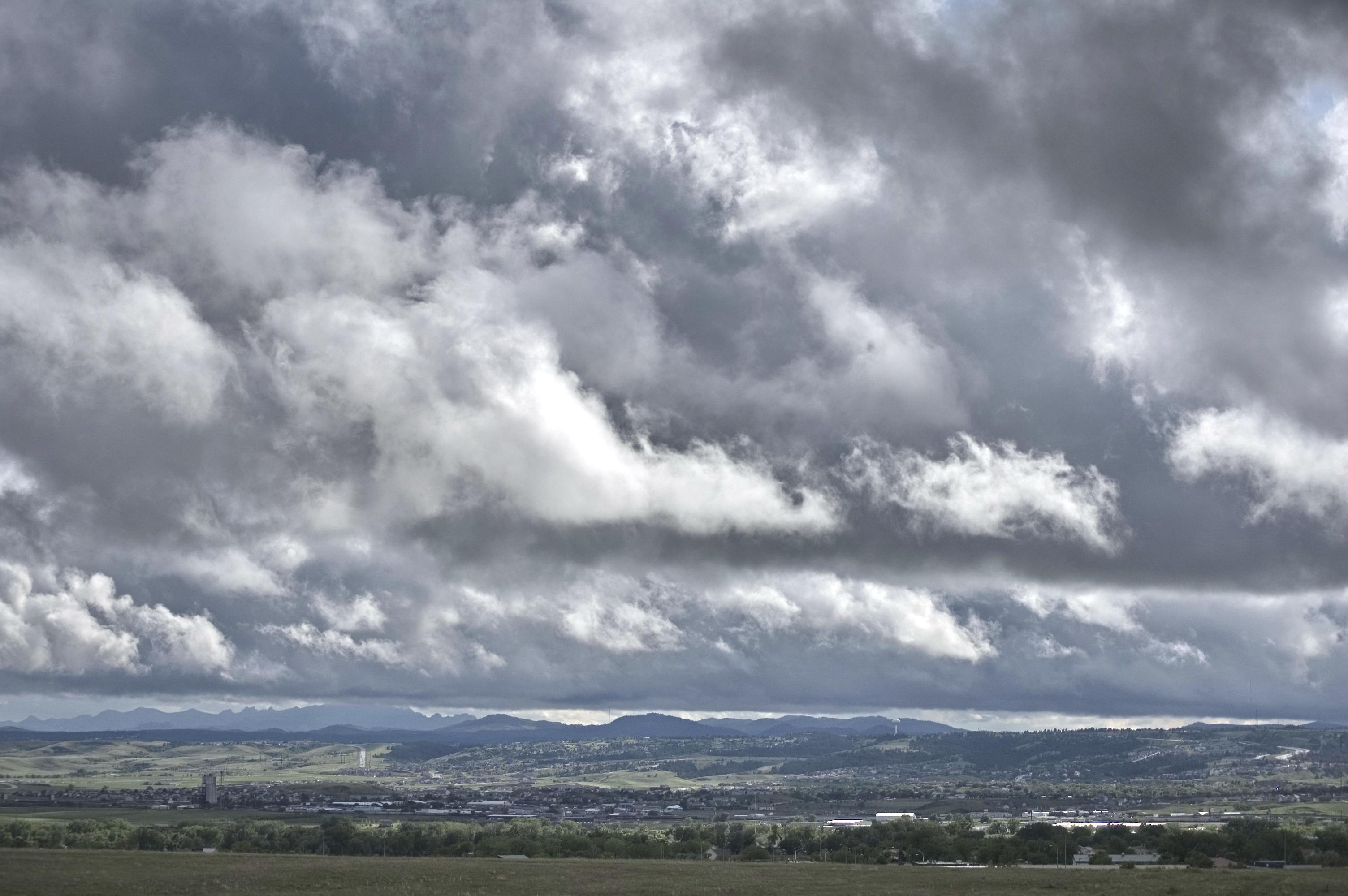 Eastern view of southern Rapid City, SD, taken from Rapid Valley.